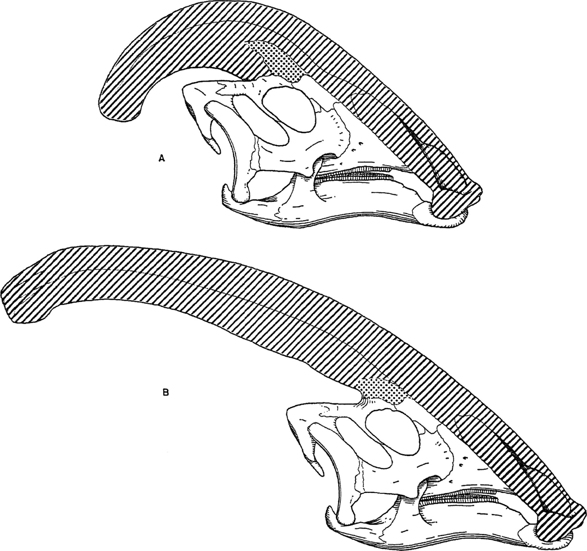 Diagram comparing the narial crests of Parasaurolophus cyrtocristatus (a) and Parasaurolophus walkeri (b).